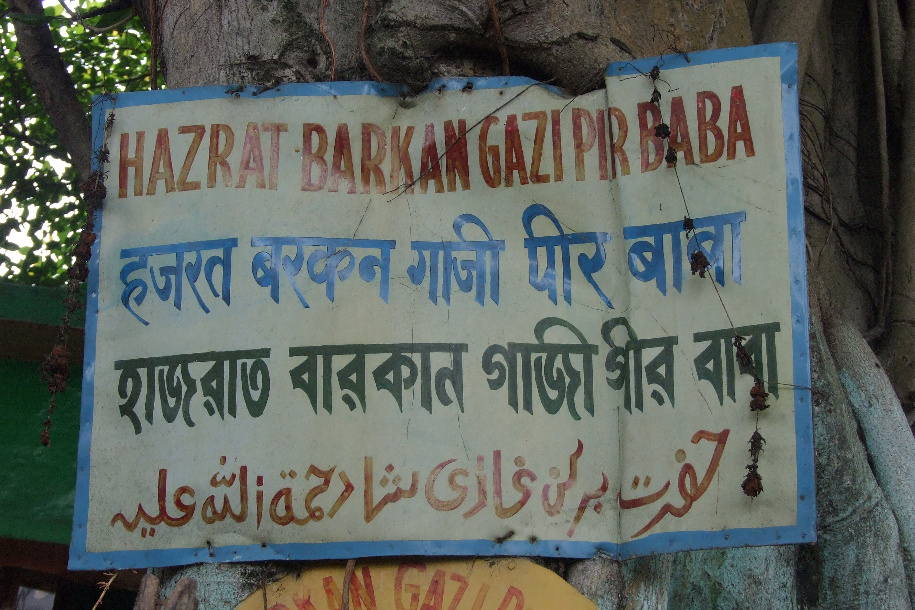 Hazrat Barkan Gazi Pir Baba or Pir Gazi - Signboard at his Shrine near Belur Math, Kolkata, India.